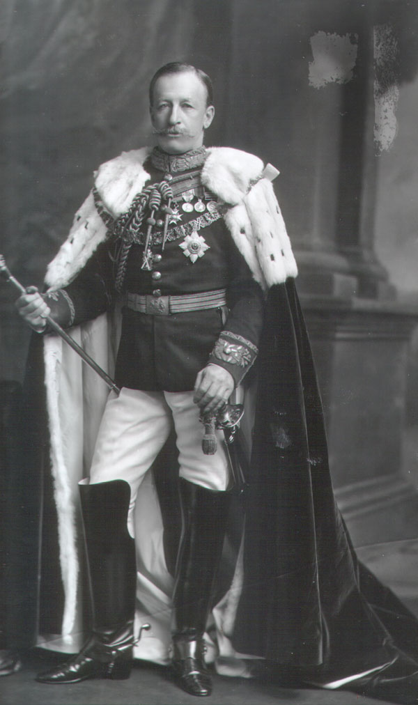 Charles Gore Hay, 20th Earl of Erroll (1852-1927). 28 October 1902. Standing with silver baton as Lord High Constable of Scotland.